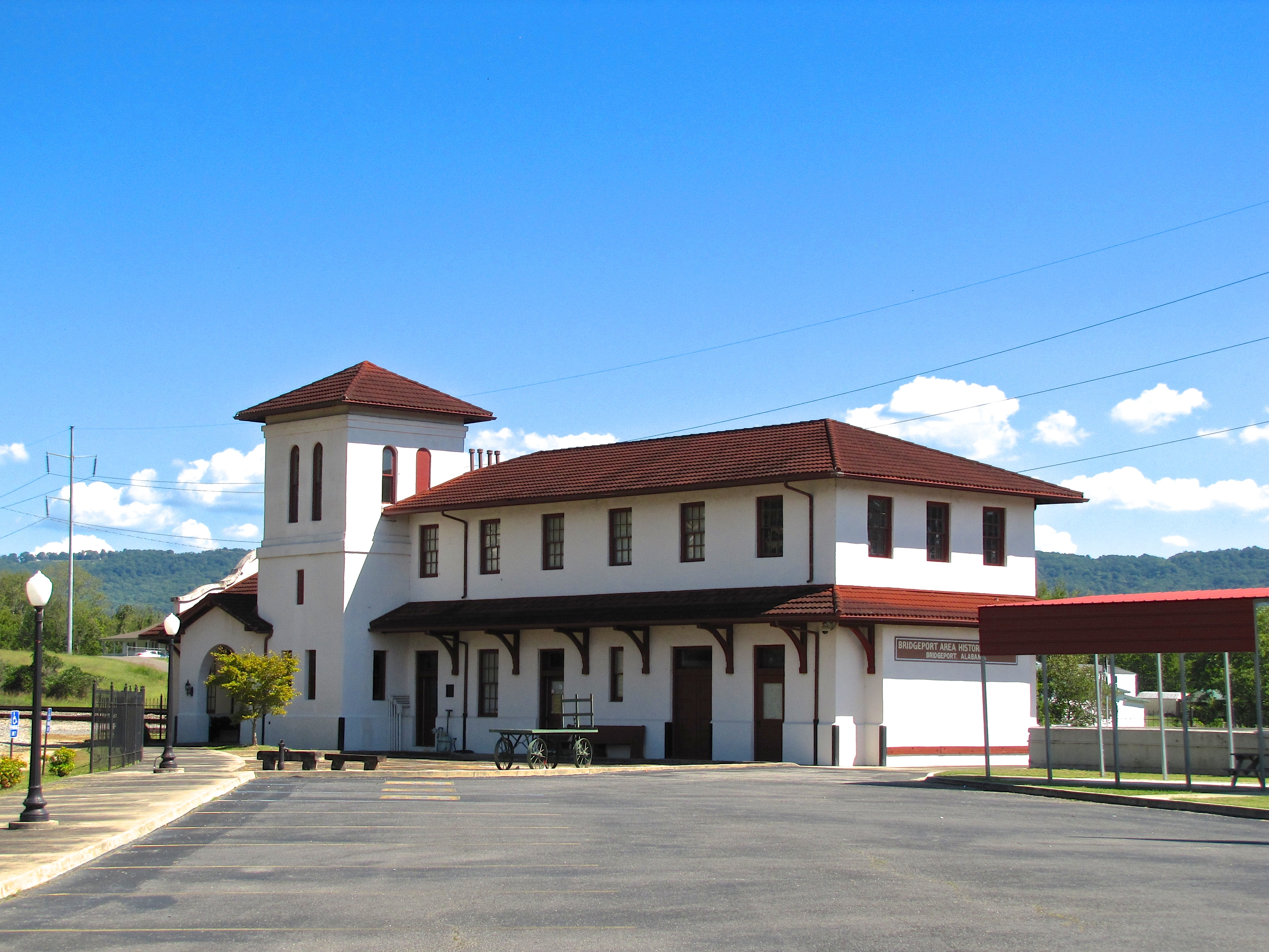 The Bridgeport Depot in Bridgeport, Alabama, United States, now home to the Bridgeport Area Historical Association and a museum.